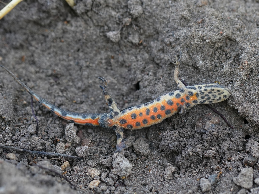 Triturus vulgaris